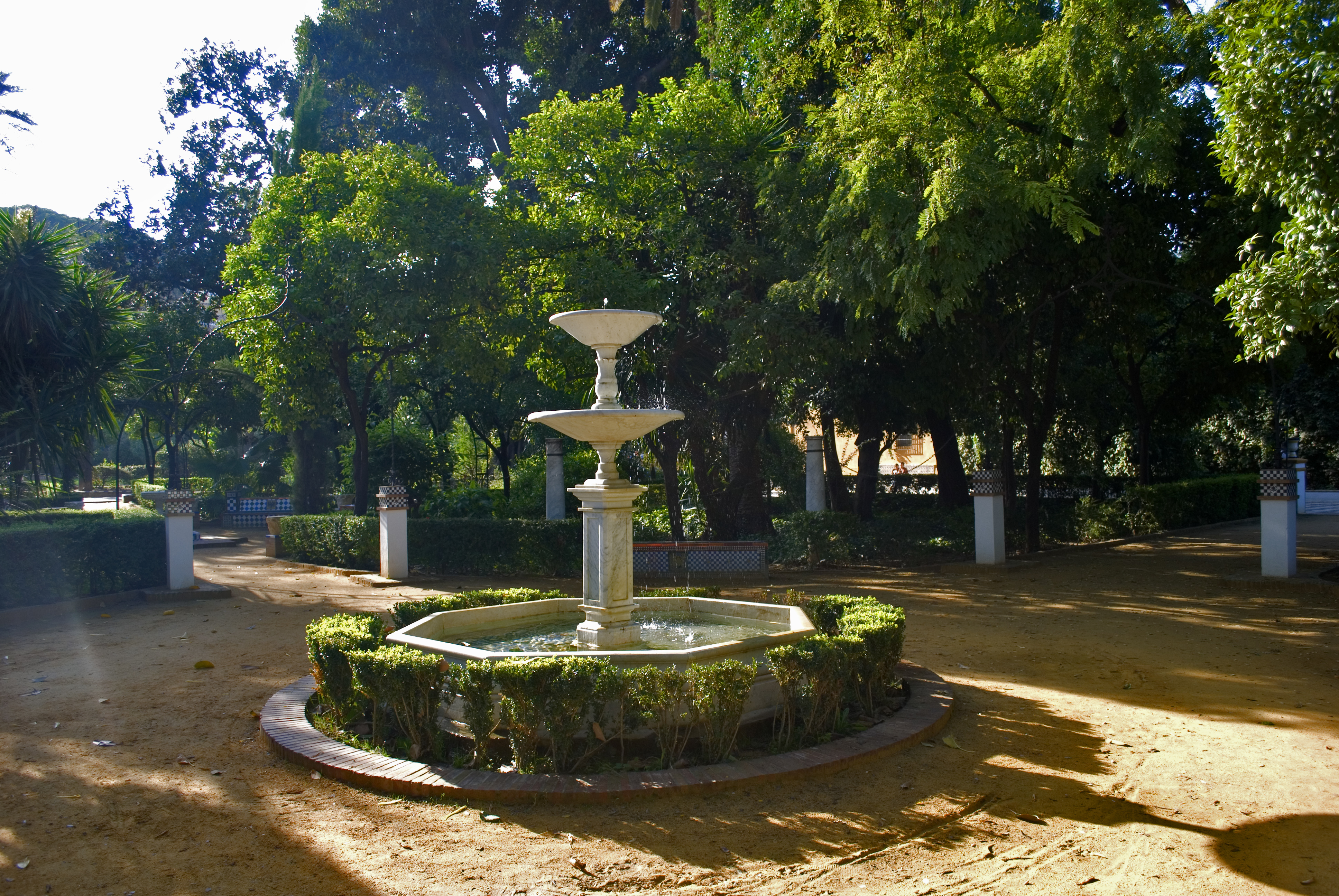 Gardens of Murillo, Seville